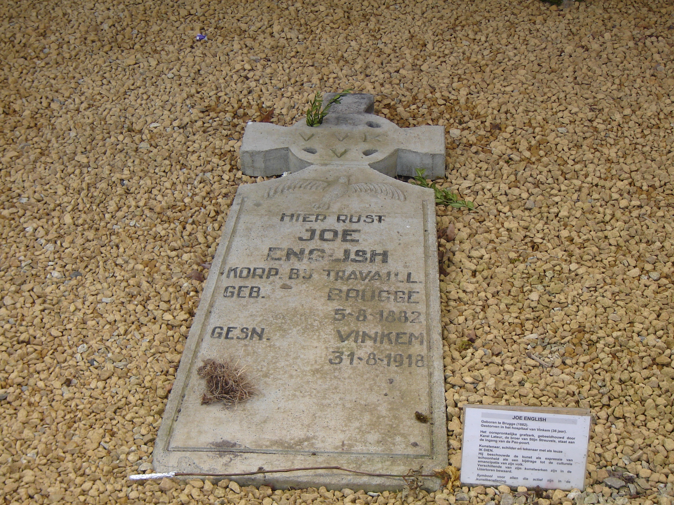 Gravestone of Joe English in the crypt of the IJzertoren in Kaaskerke. Kaaskerke, Diksmuide, West Flanders, Belgium